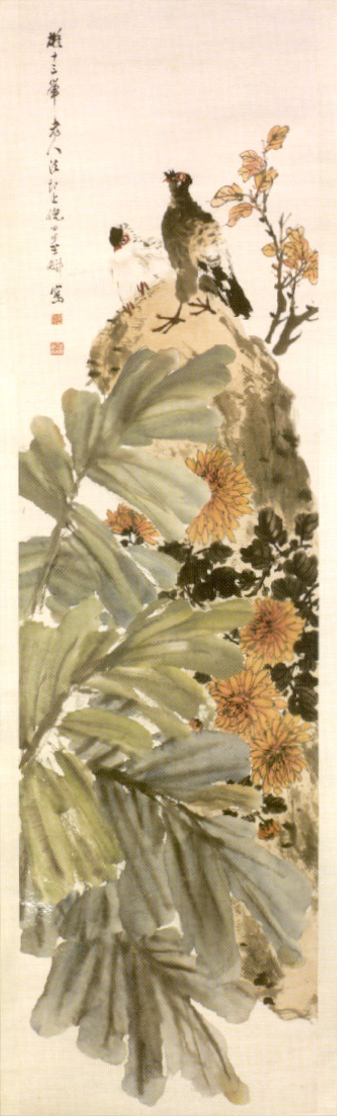 Pair of Birds on Rock by Ni Tian (1855-1919), Honolulu Academy of Arts